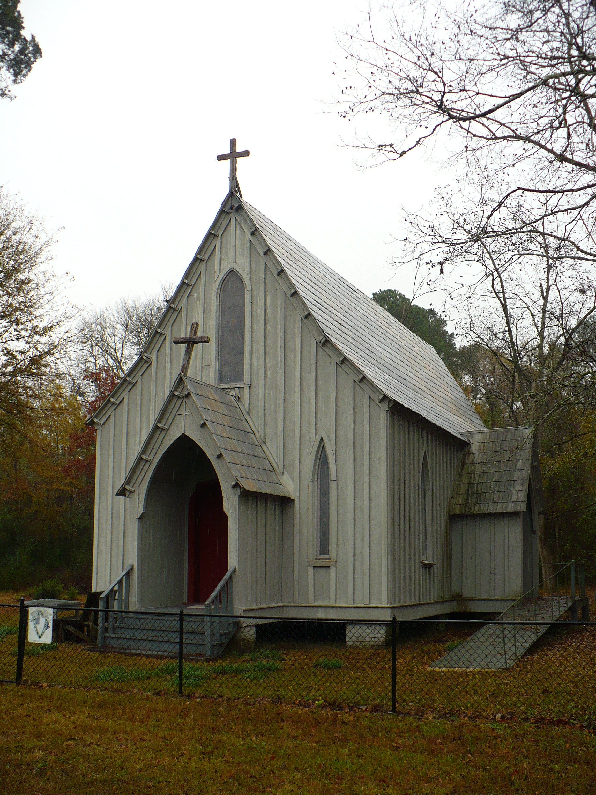 St. John's-in-the-Prairie Episcopal Church in Forkland, Alabama. Erected in 1859. Attributed to the designs of Richard Upjohn.